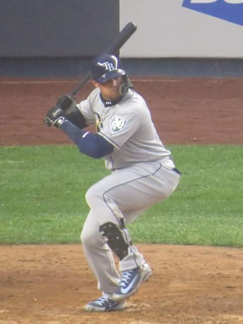 Carlos Gomez With the Tampa Bay Rays